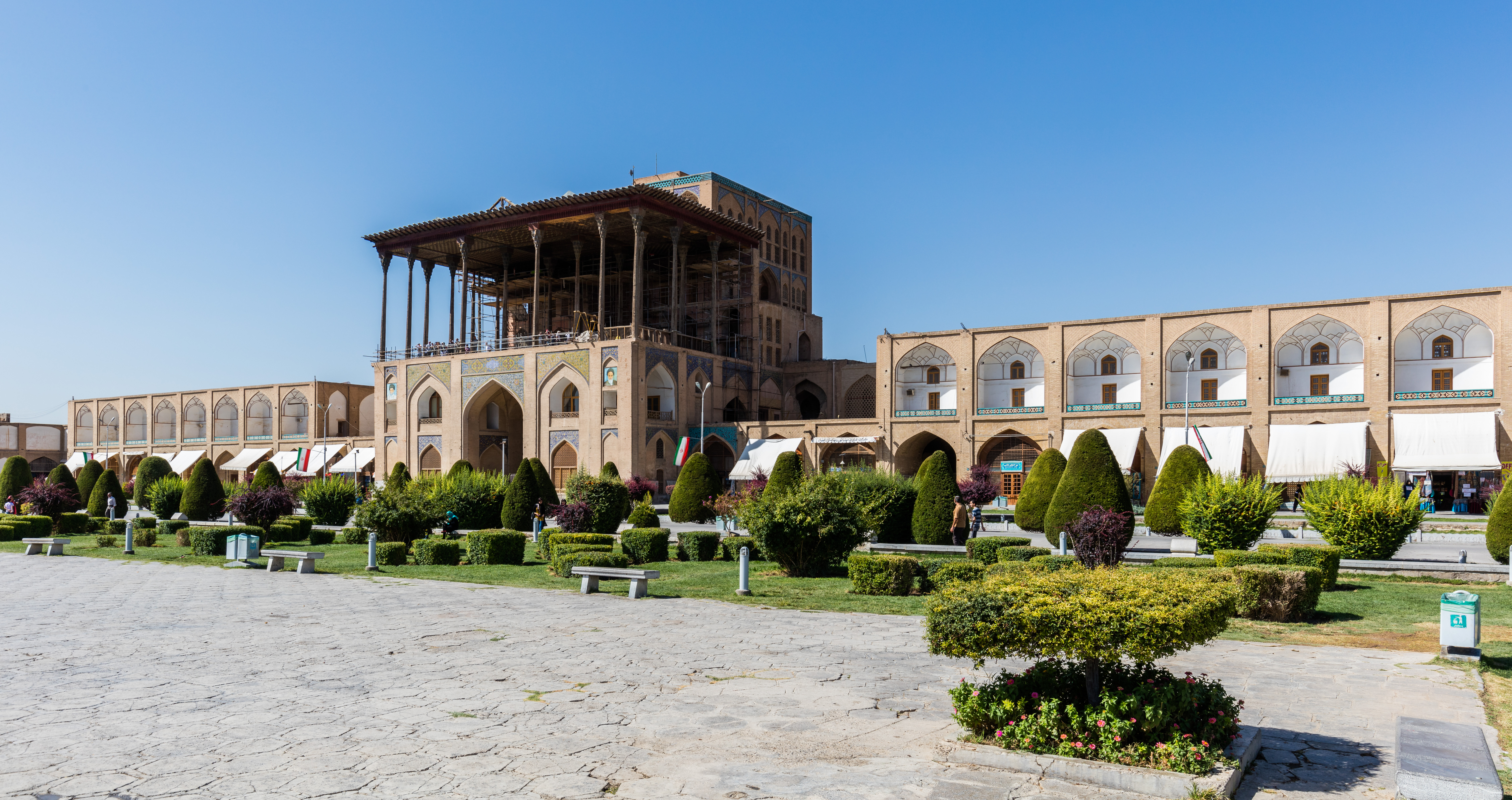 Aali Qapu Palace, Isfahan, Iran